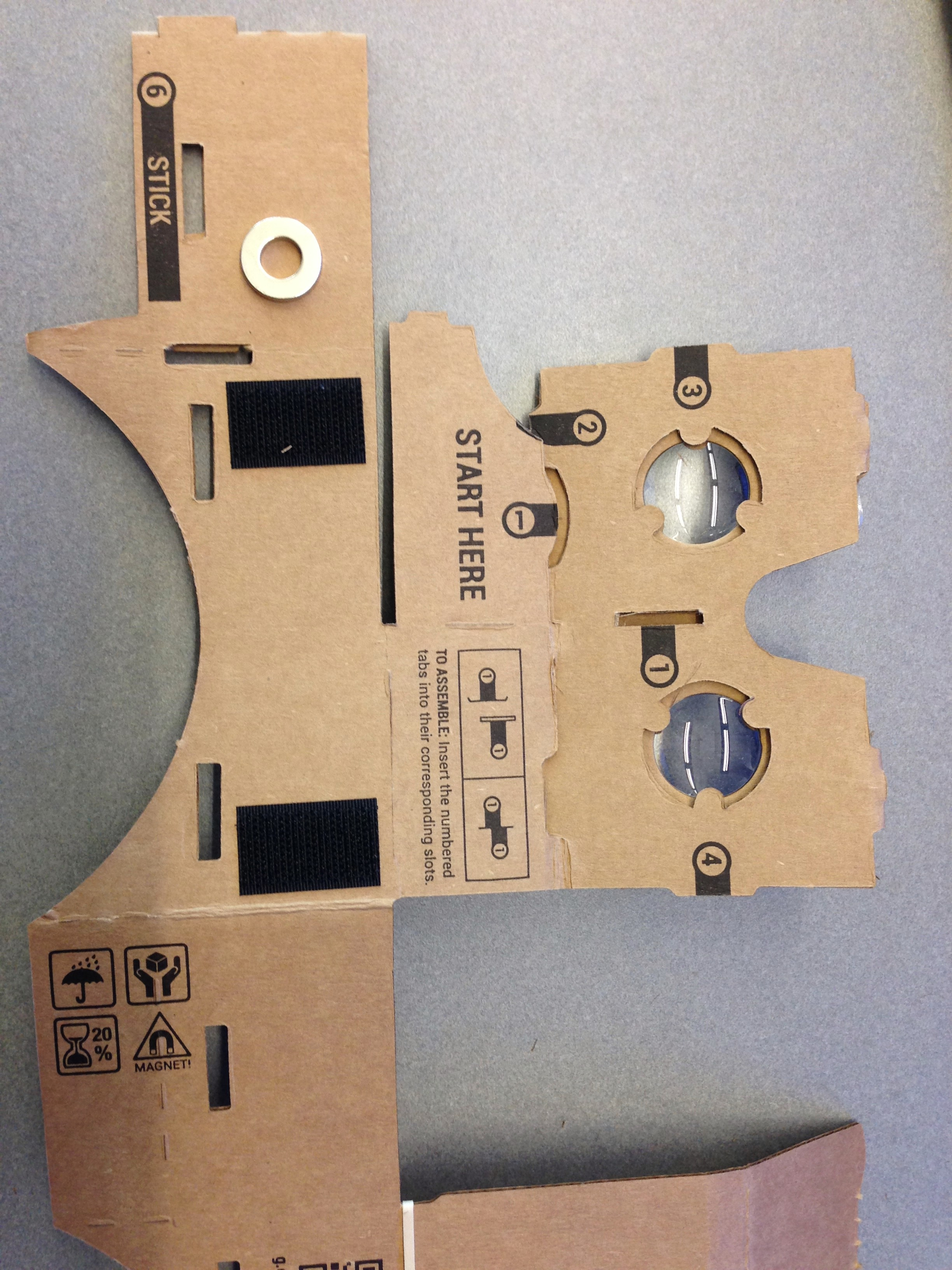 Unpacking Google Cardboard from its original folded-up package.